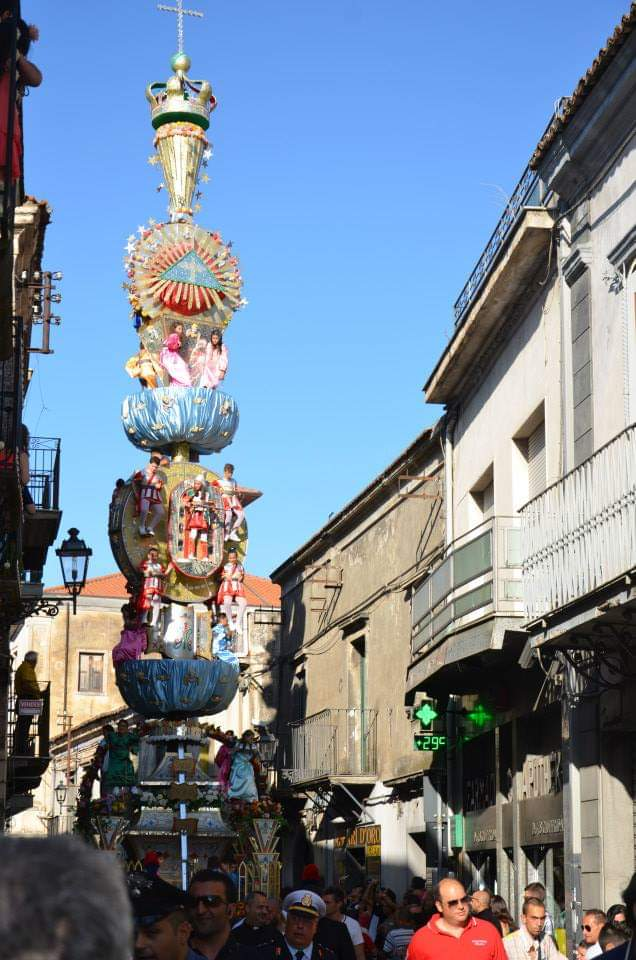 taken 15th August 2014